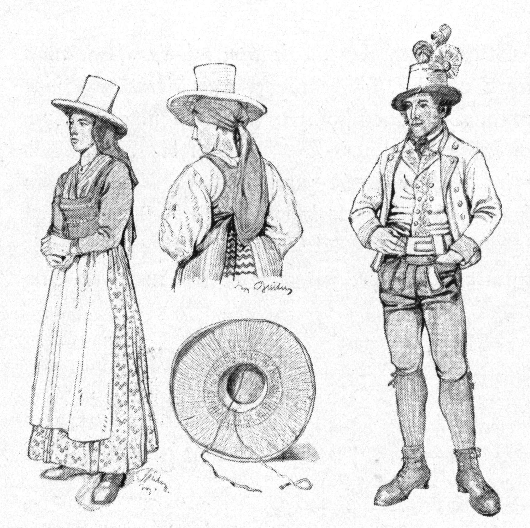 Steirisches Trachtenbuch - Mautner-Geramb 1935 Traditional Costumes from Ennstal, Styria Scanprojekt Bundesdenkmalamt Österreich This scan or this PDF-file was created within the Austrian Wikipedia-project Denkmalpflege Österreich (German only) supported by Wikimedia Germany and Wikimedia Austria as part of the Wikipedia community-project to collect public domain documents from the library of the Heritage Monuments Board of Austria. This document describes or depicts an object which is located in Austria today. Texts are written in German language. Send requests for uncompressed scans to Hubertl. This work is in the public domain in the United States, and those countries with a copyright term of life of the author plus 100 years or less. This file has been identified as being free of known restrictions under copyright law, including all related and neighboring rights.